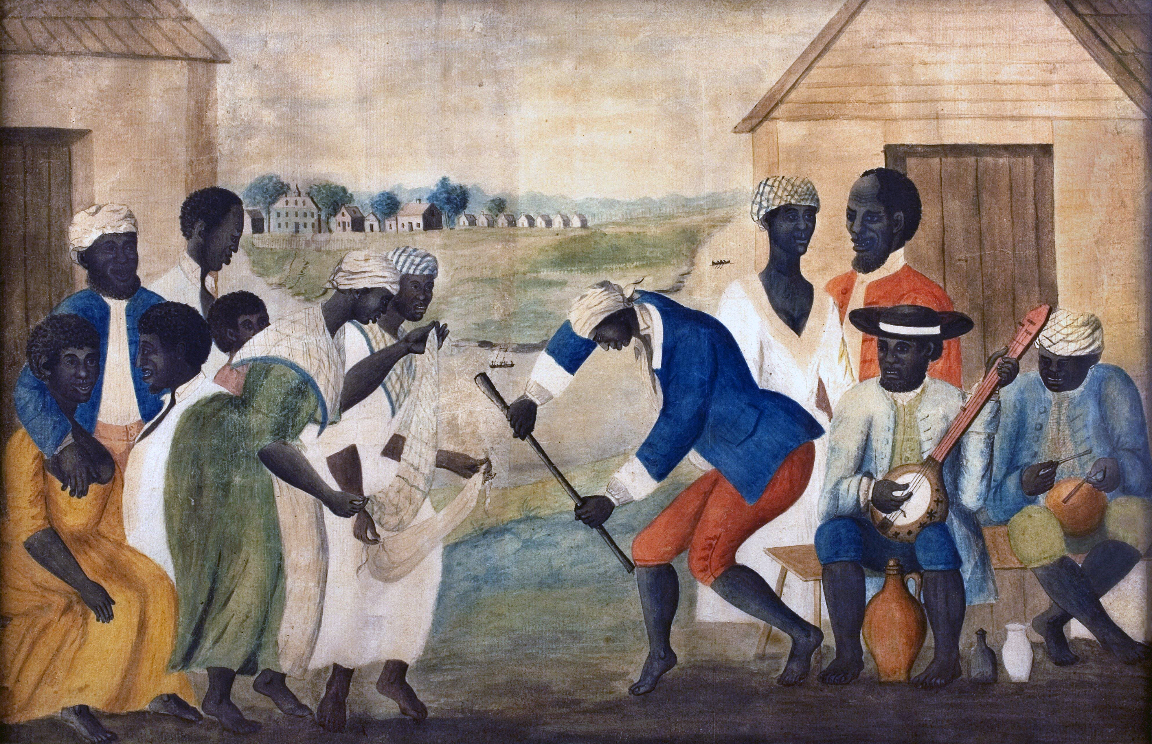 "The Old Plantation," South Carolina, about 1790. This famous painting shows Gullah slaves dancing and playing musical instruments derived from Africa. Scholars unaware of the Sierra Leone slave trade connection have interpreted the two female figures as performing a "scarf" dance. Sierra Leoneans can easily recognize that they are playing the shegureh, a women's instrument (rattle) characteristic of the Mende and neighboring tribes.